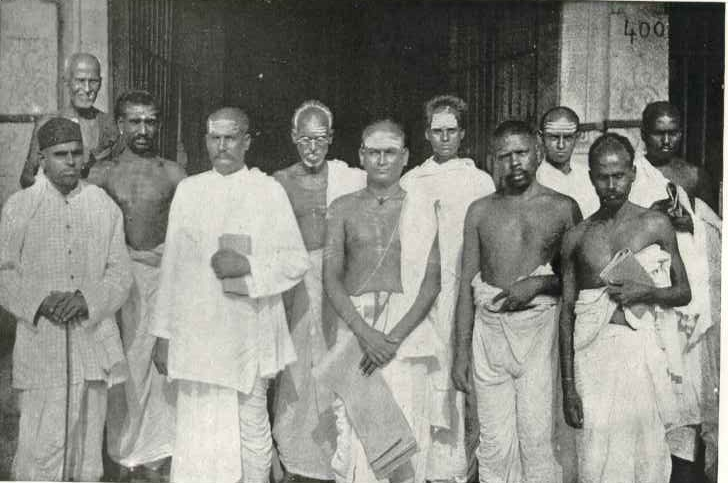 A Census Superintendent and enumerator making their report, Madras Presidency